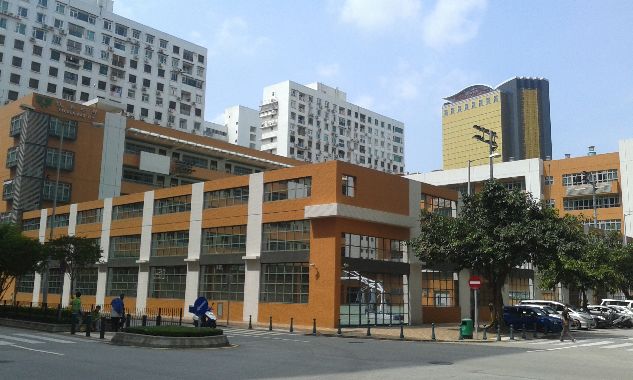 Macau Kao Yip Middle School in Novos Aterros do Porto Exterior (NAPE)